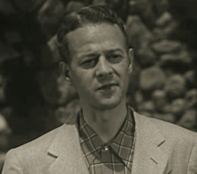 Roland Varno in Flight to Nowhere - cropped screenshot